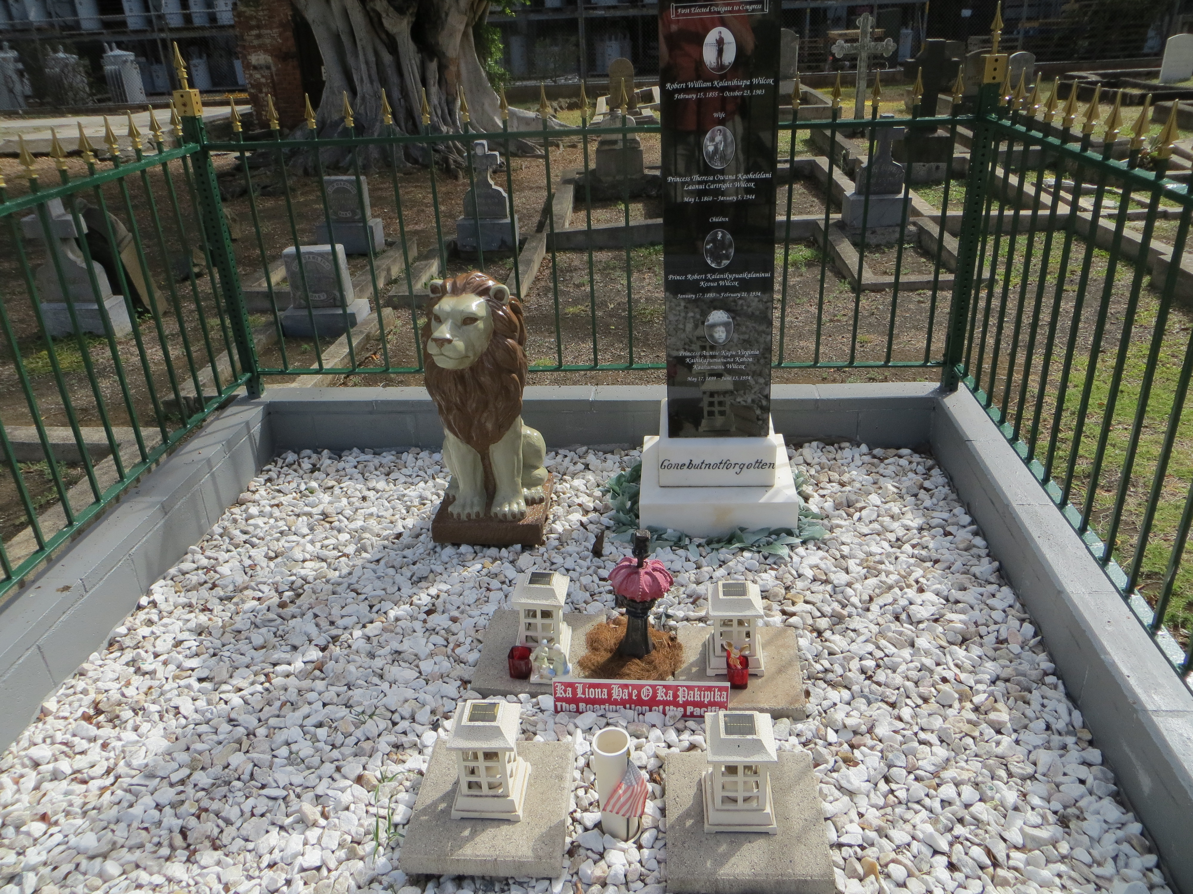 Robert William Wilcox family plot, Roman Catholic Cemetery, King St., Honolulu, Hawaii